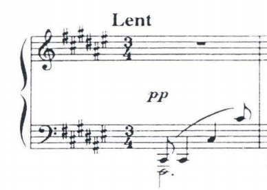 A Demonstration of The Ostinato in Les Sirenes